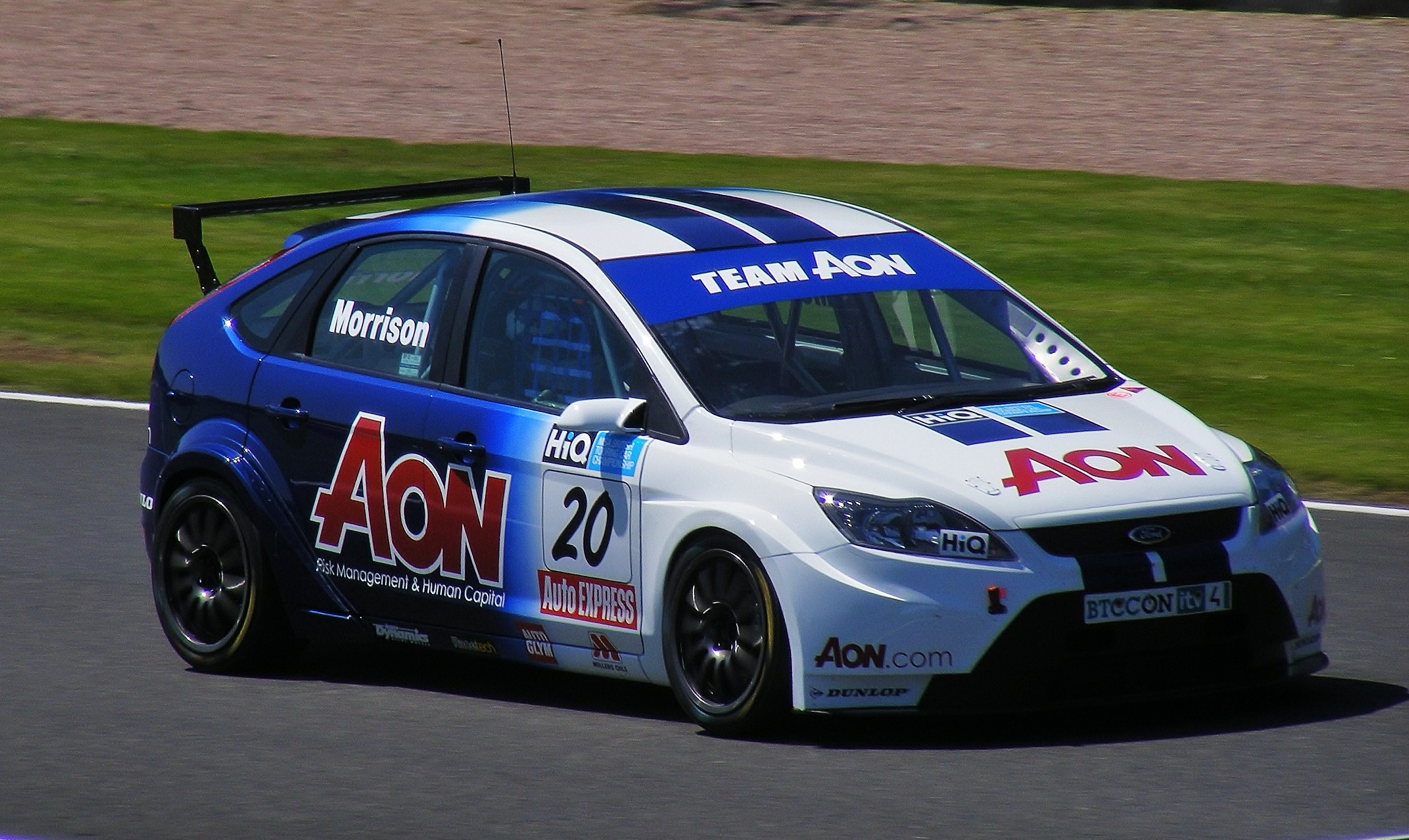 Alan Morrison exits on the run up towards Clay Hill at Oulton Park during qualifying.